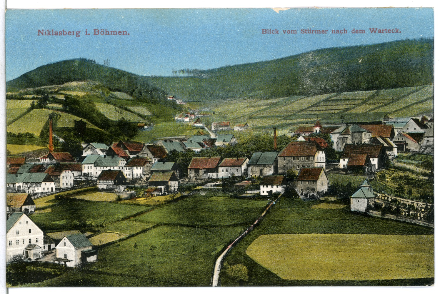 This postcard is from publisher Brück & Sohn in Meißen ( This postcard has a unique number 13288 and is available in a higher resolution at the publisher. This images was uploaded in a cooperation project between Wikipedians and the publisher.